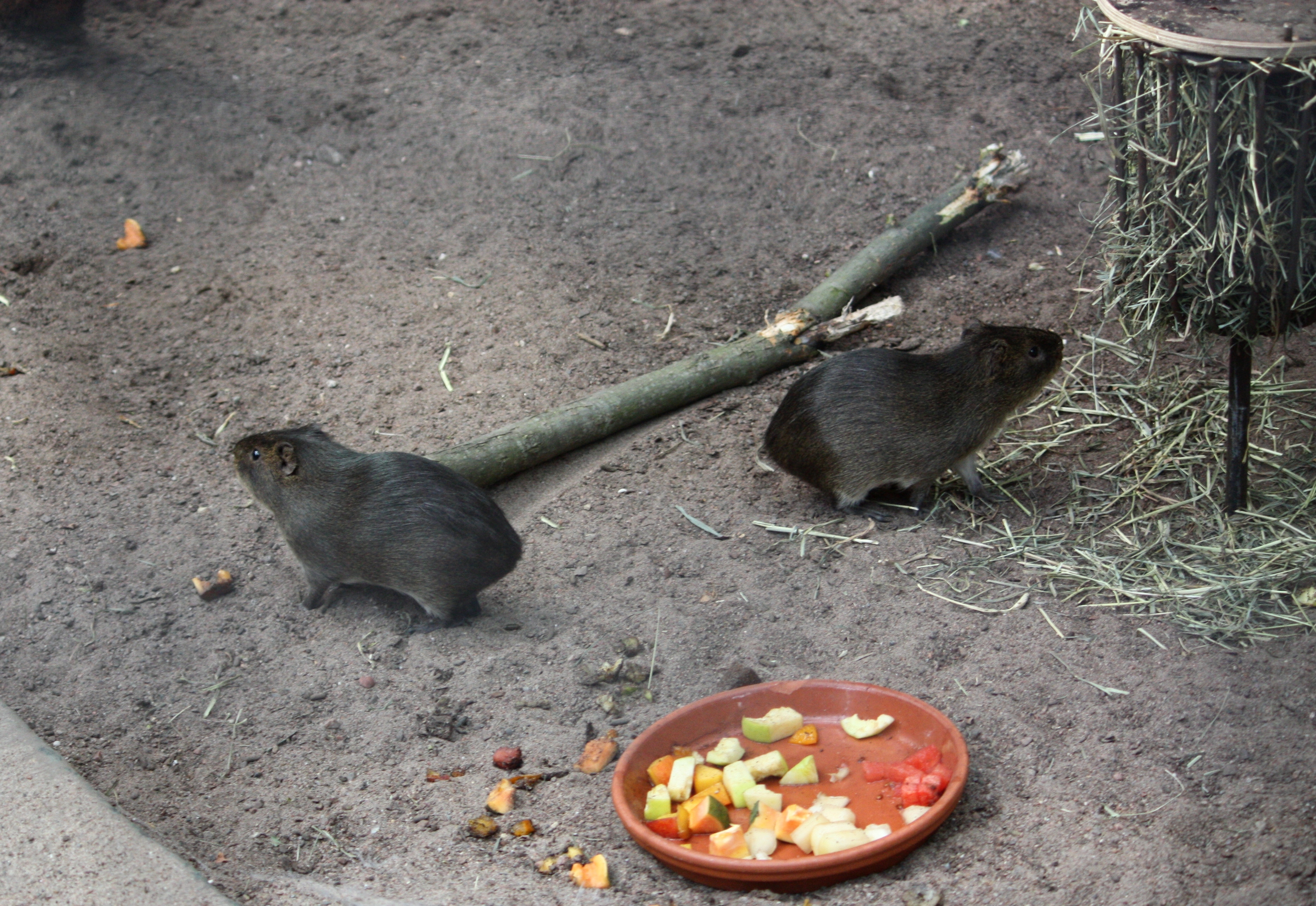 Greater Guinea Pigs (Cavia magna) at Korkeasaari Zoo in Helsinki.